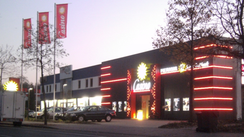 Casino in Hormesfeld, Viersen, Germany.